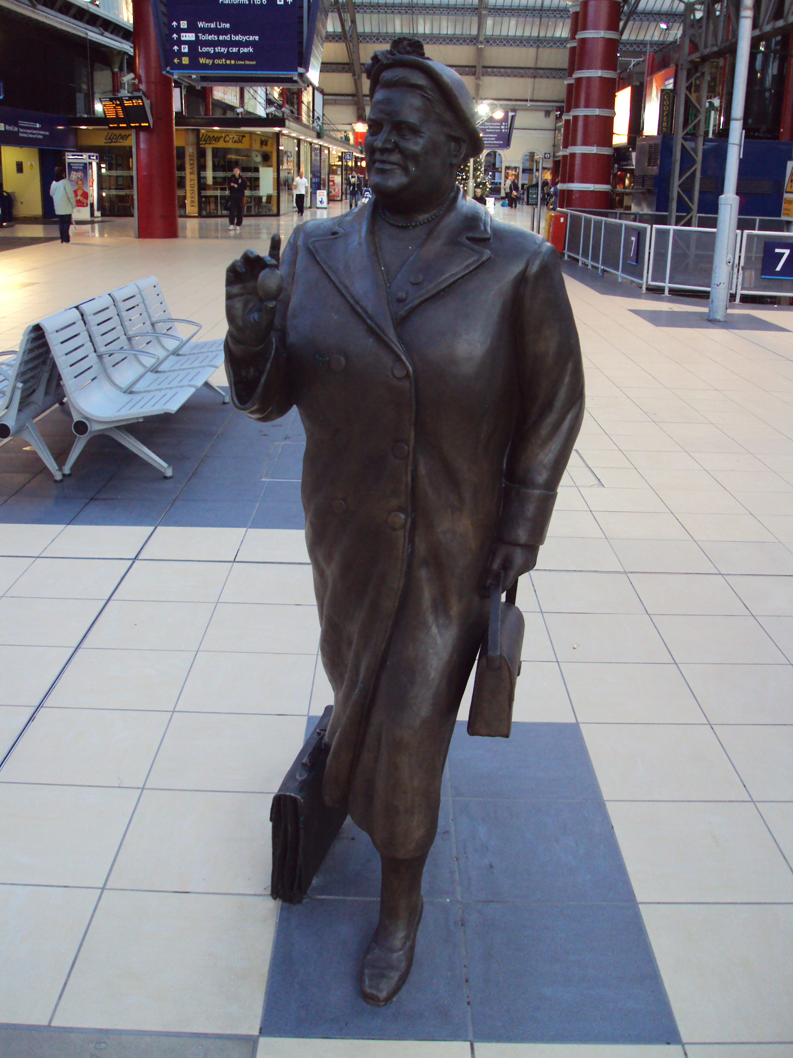 "A Chance Meeting" a sculpture by Tom Murphy of Bessie Braddock at Liverpool Lime Street Railway station.